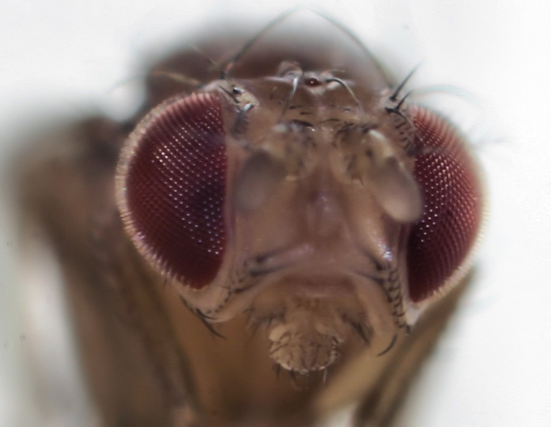 Fruit Fly (front side view)